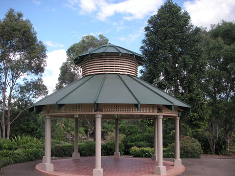 Bungarribee Pavilion in the Nurragingy Nature Reserve, Doonside, NSW. This part of the reserve is a wedding venue near the Colebee Centre.